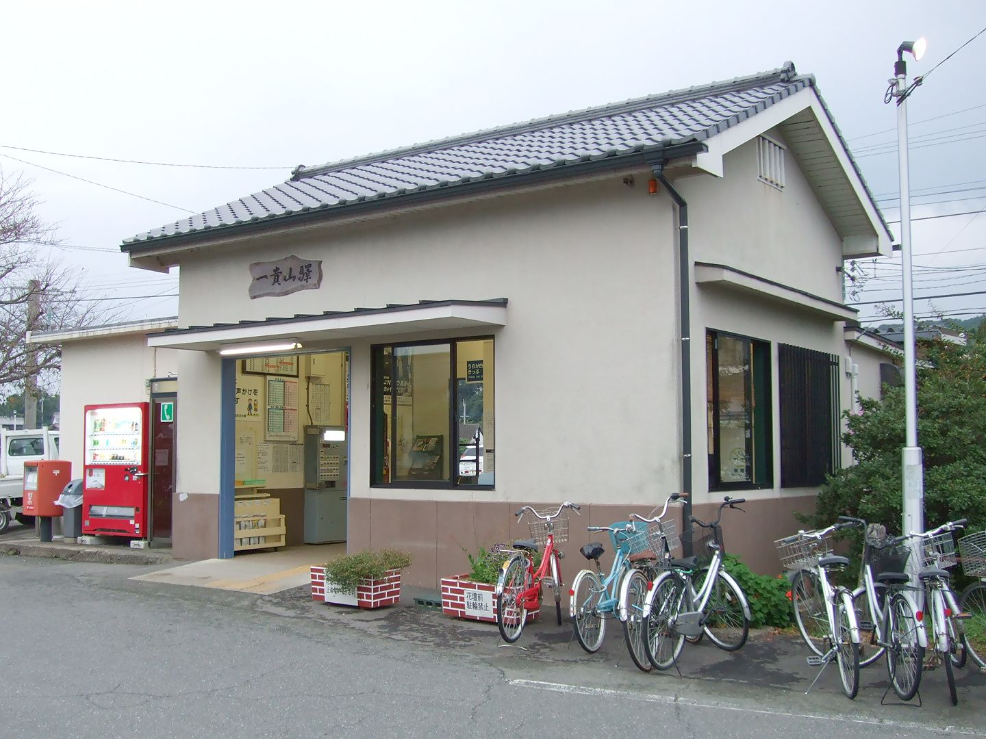 Ikisan Station, Chukuhi Line, Kyushu Railway Company.